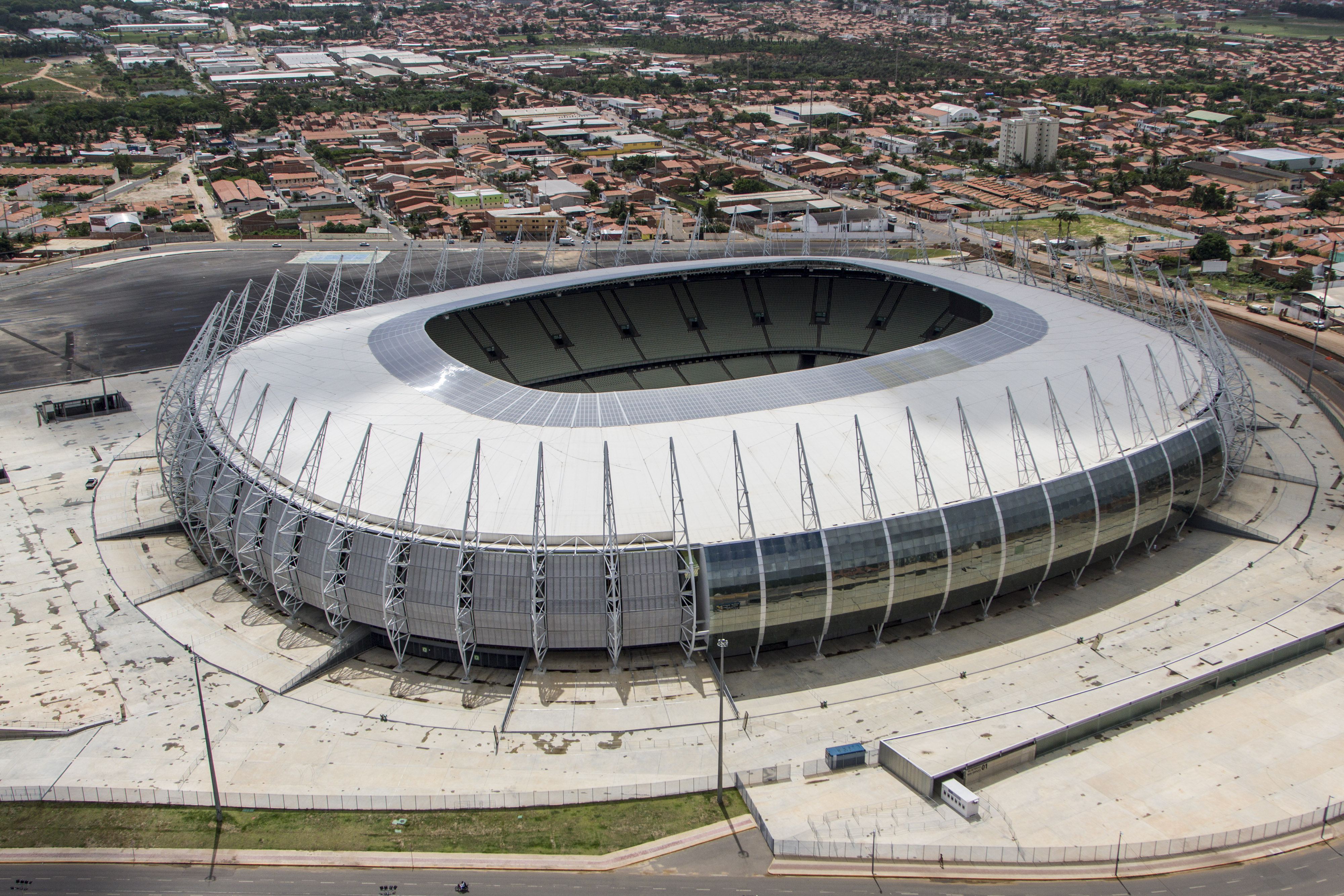 Fortaleza Arena on March 2014.